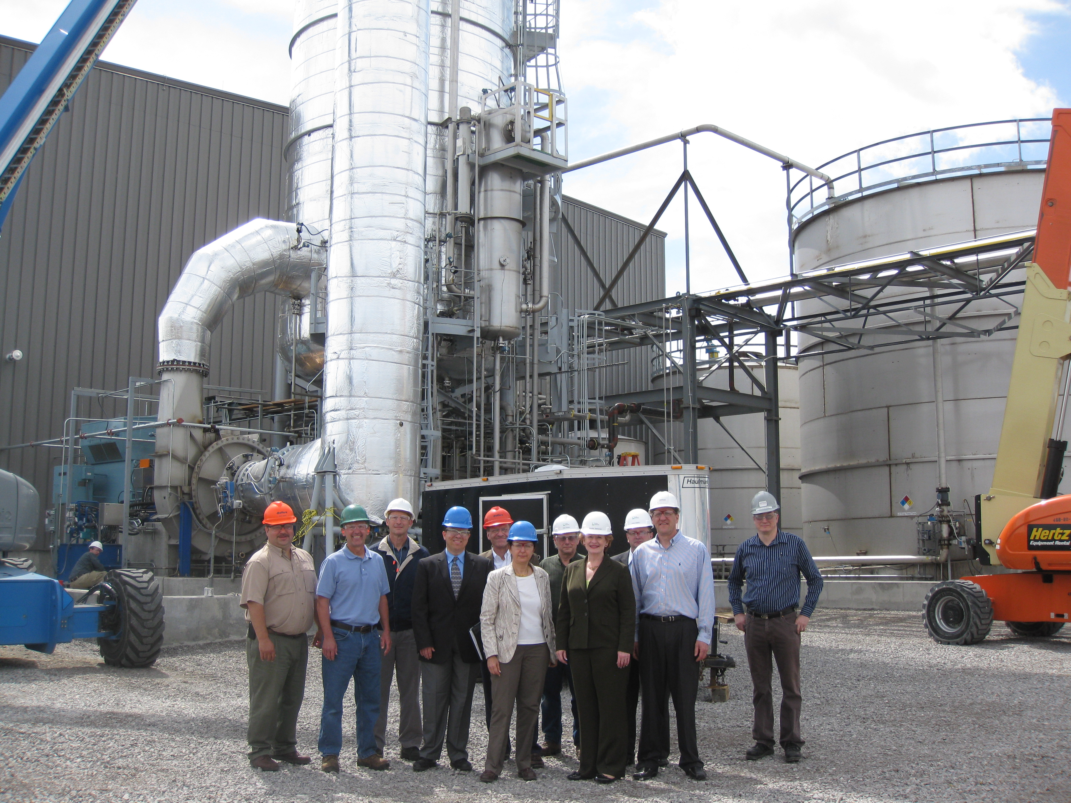 Senator Stabenow visits the Alpena Biorefinery to discuss new and innovative ways to reduce our dependence on foreign oil. This photograph is provided by the Office of U.S. Senator Debbie Stabenow.